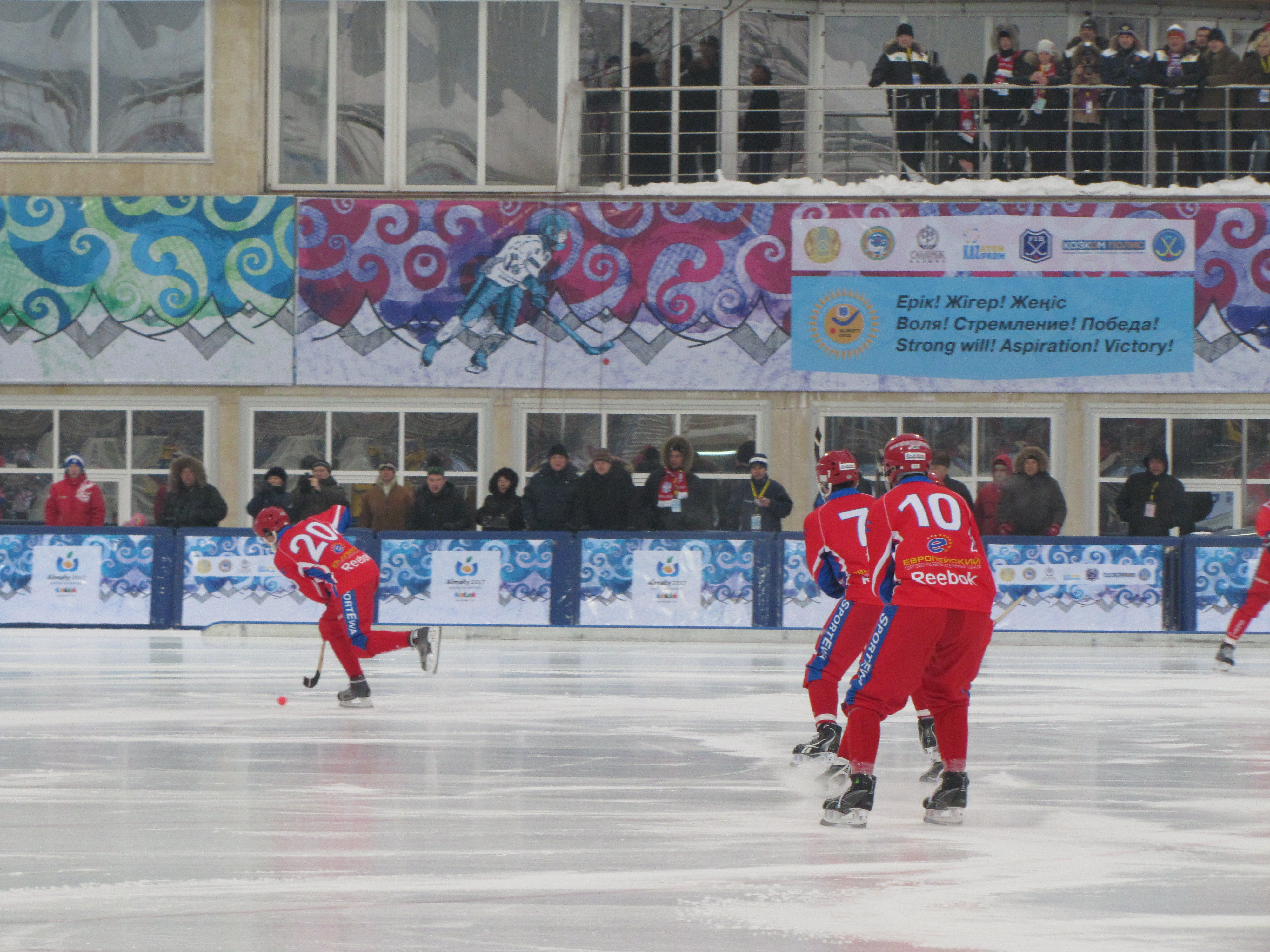 The final match between Russia (pictured) and Sweden at the 2012 World Bandy Championship, Almaty, Kazakhstan